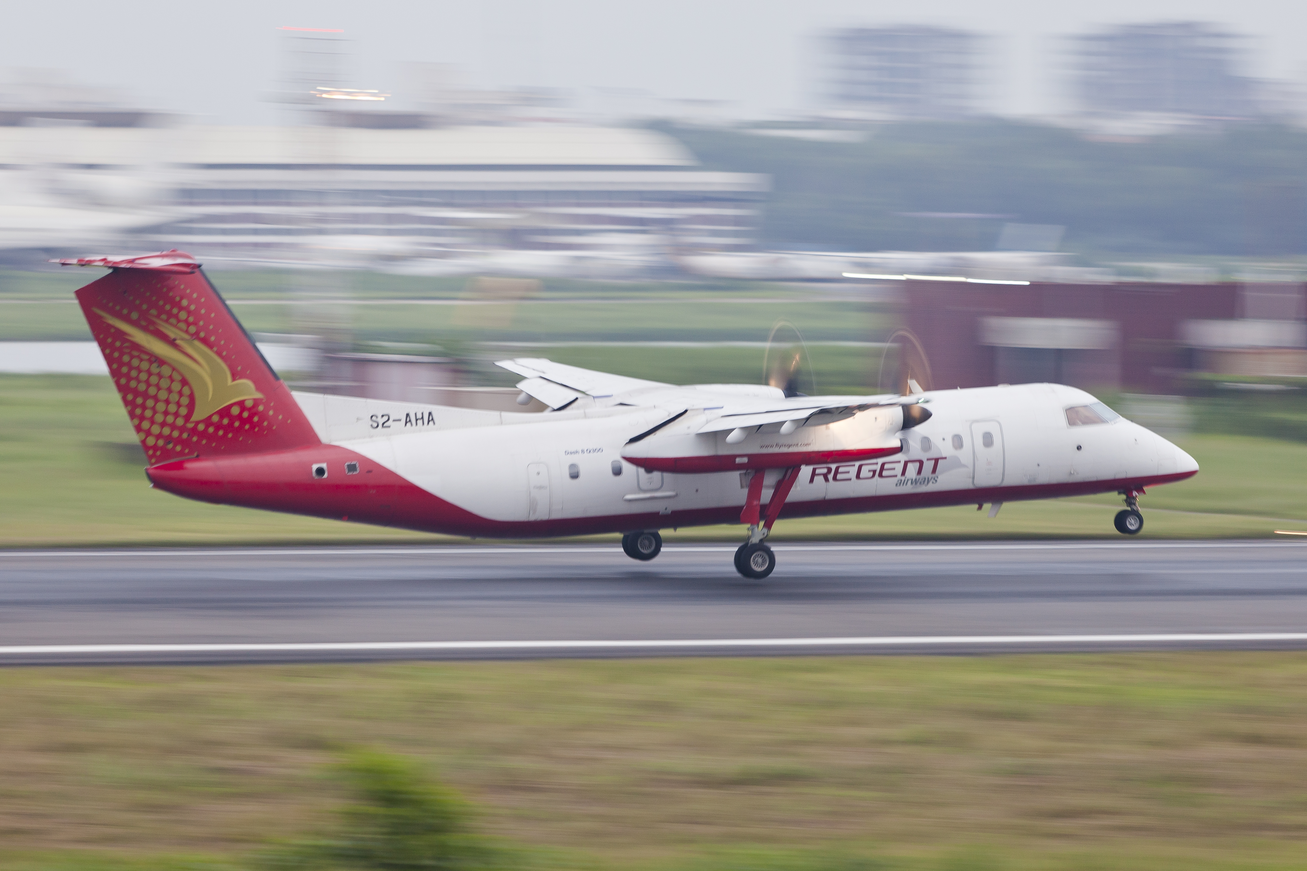 Regent Airways Bombardier Dash 8-Q314 S2-AHA Landing at Hazrat Shahjalal International Airport, Dhaka - VGHS / DAC